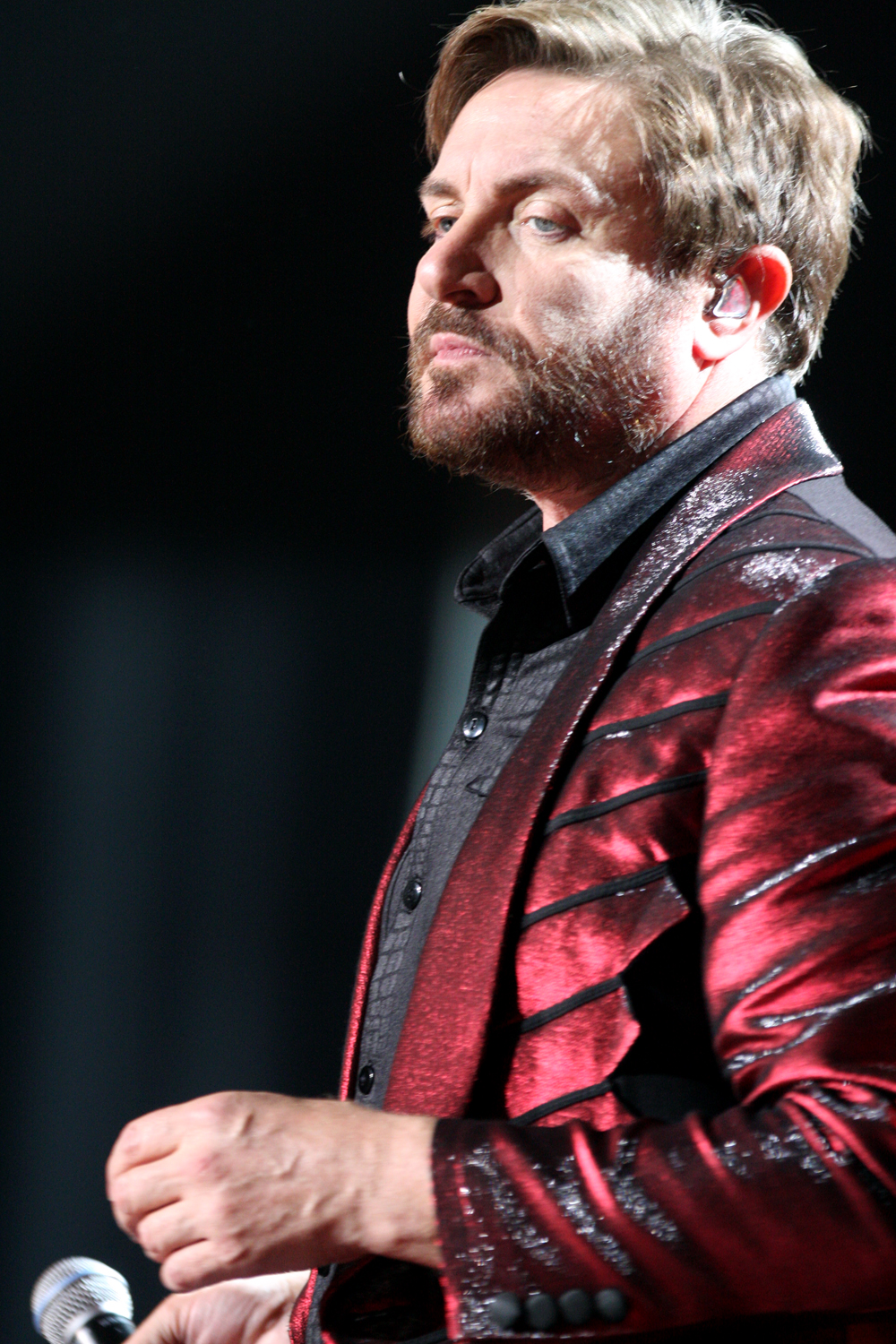 Duran Duran Rock Sydney Entertainment Centre, Australia